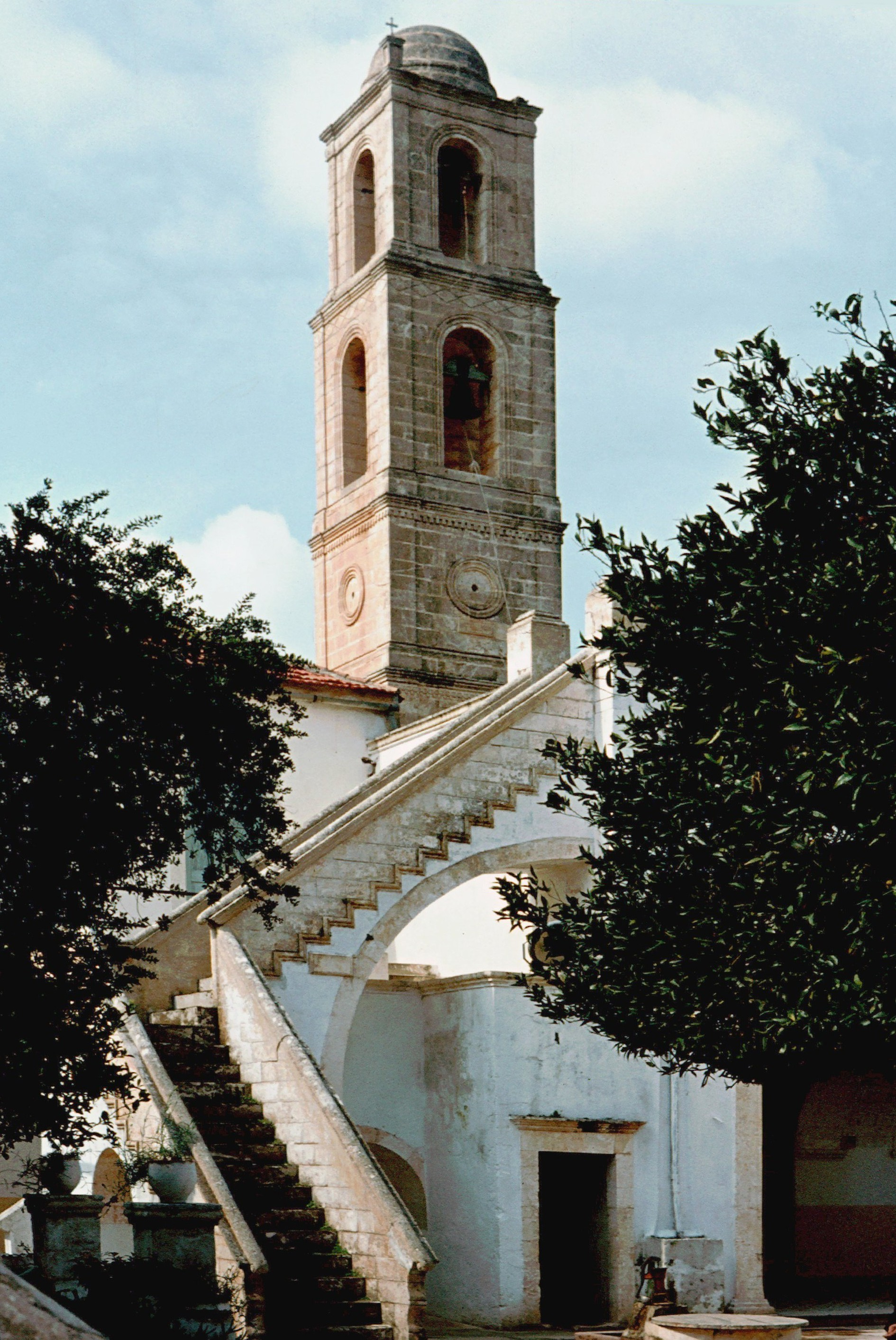 Belltower of the monastery Agia Triada, Akrotiri. Picture taken in February, 1973